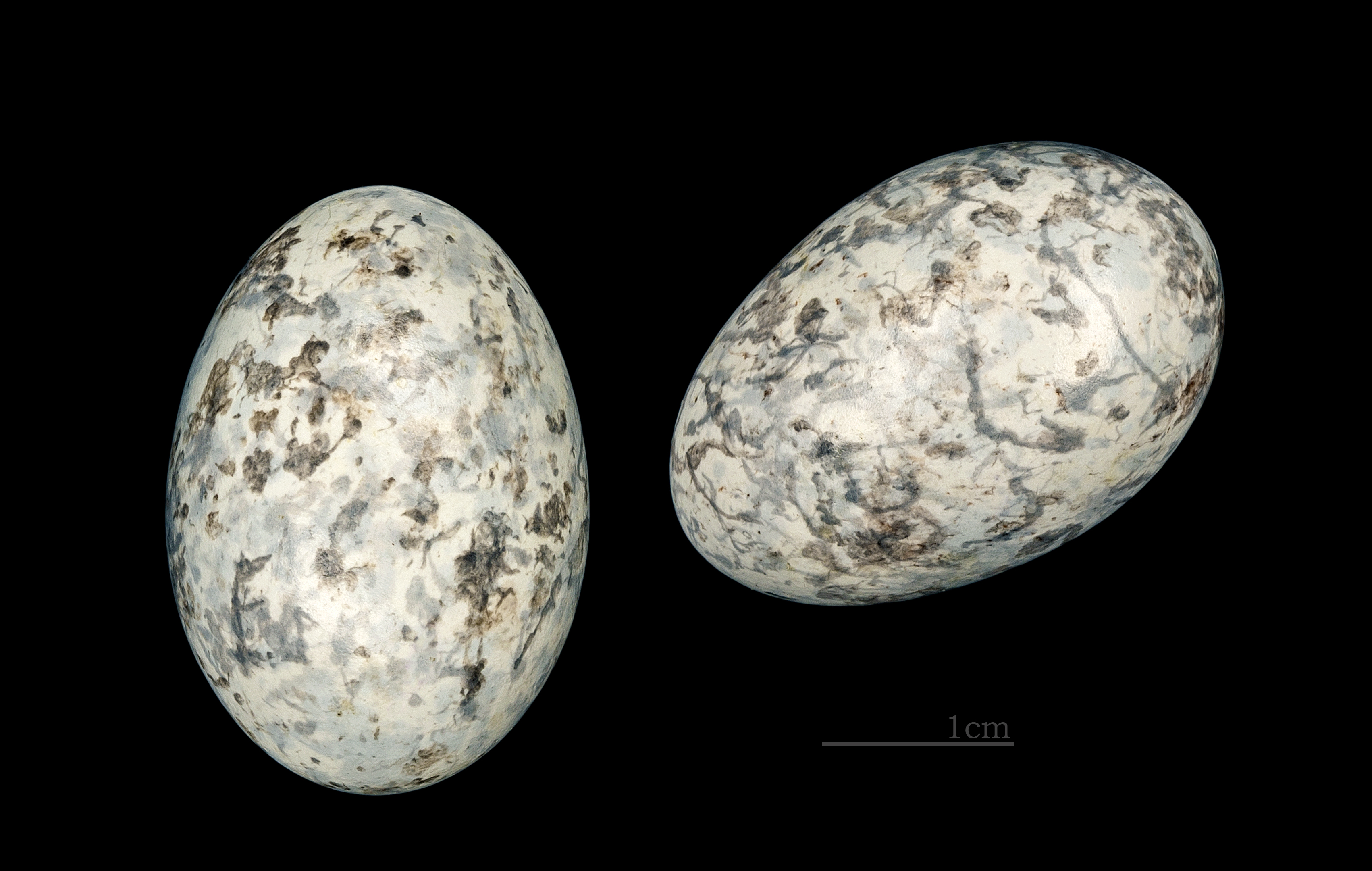 Egg of European nightjar. Collection of René de Naurois/Jacques Perrin de Brichambaut.